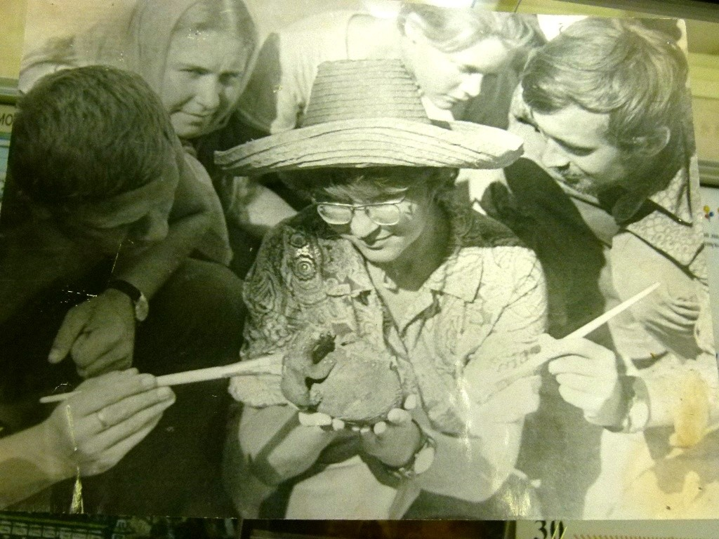 Archeology expedition